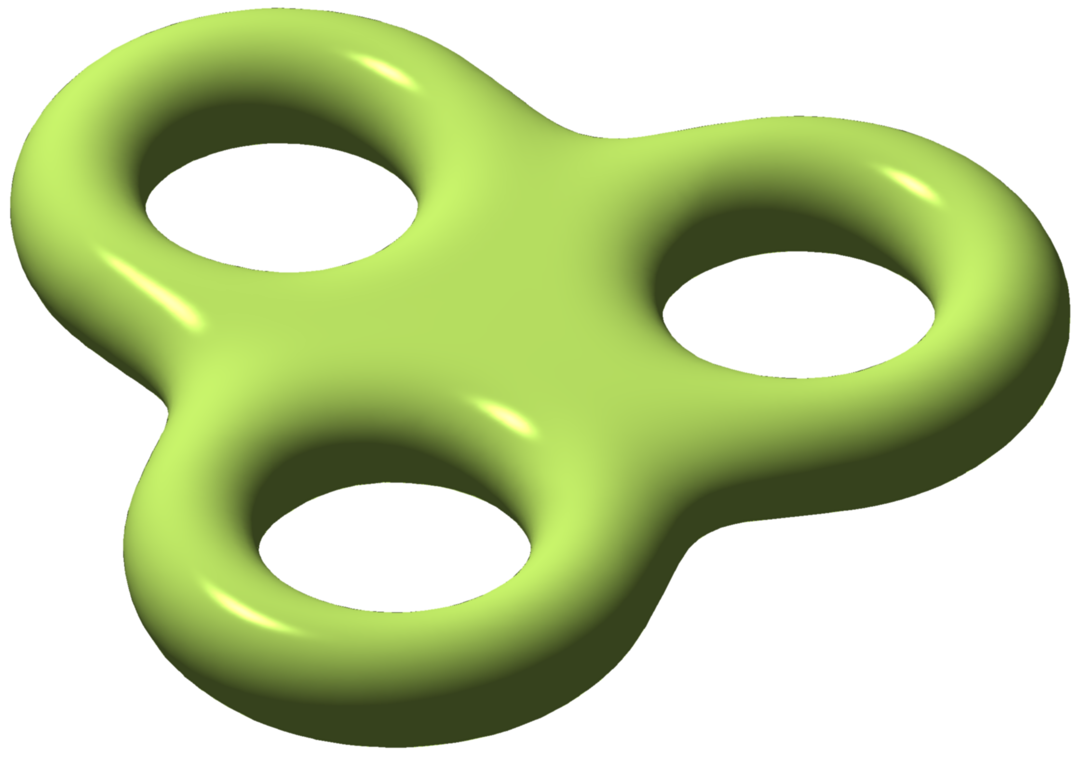 Illustration of a triple torus